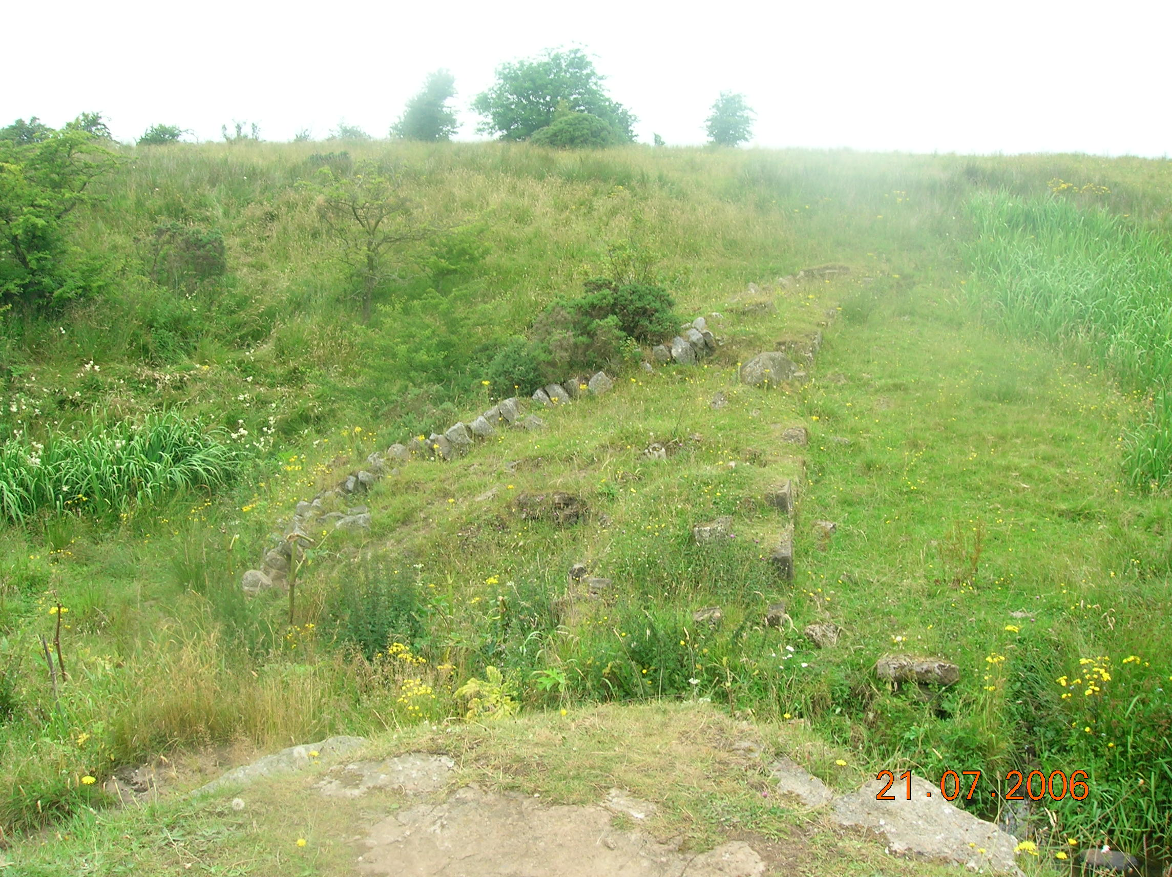 The remains of the dam on the Corsehill Burn near Stewarton, East Ayrshire in 2006.